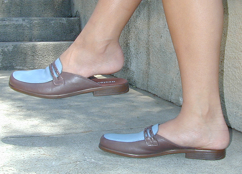 A pair of woman's brown and blue loafer-style mules with a low heel.